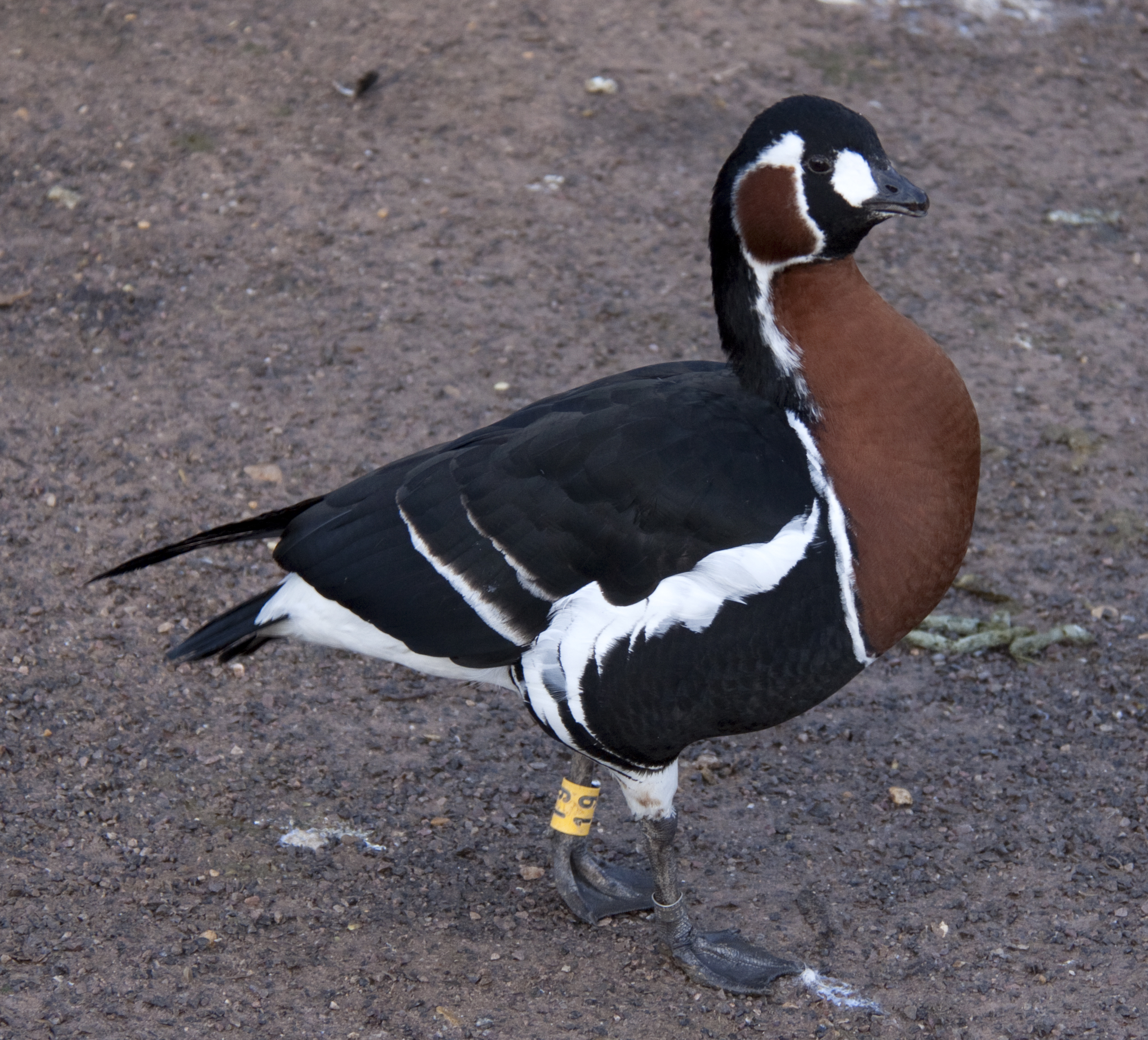 Red-brested Goose Branta ruficollis